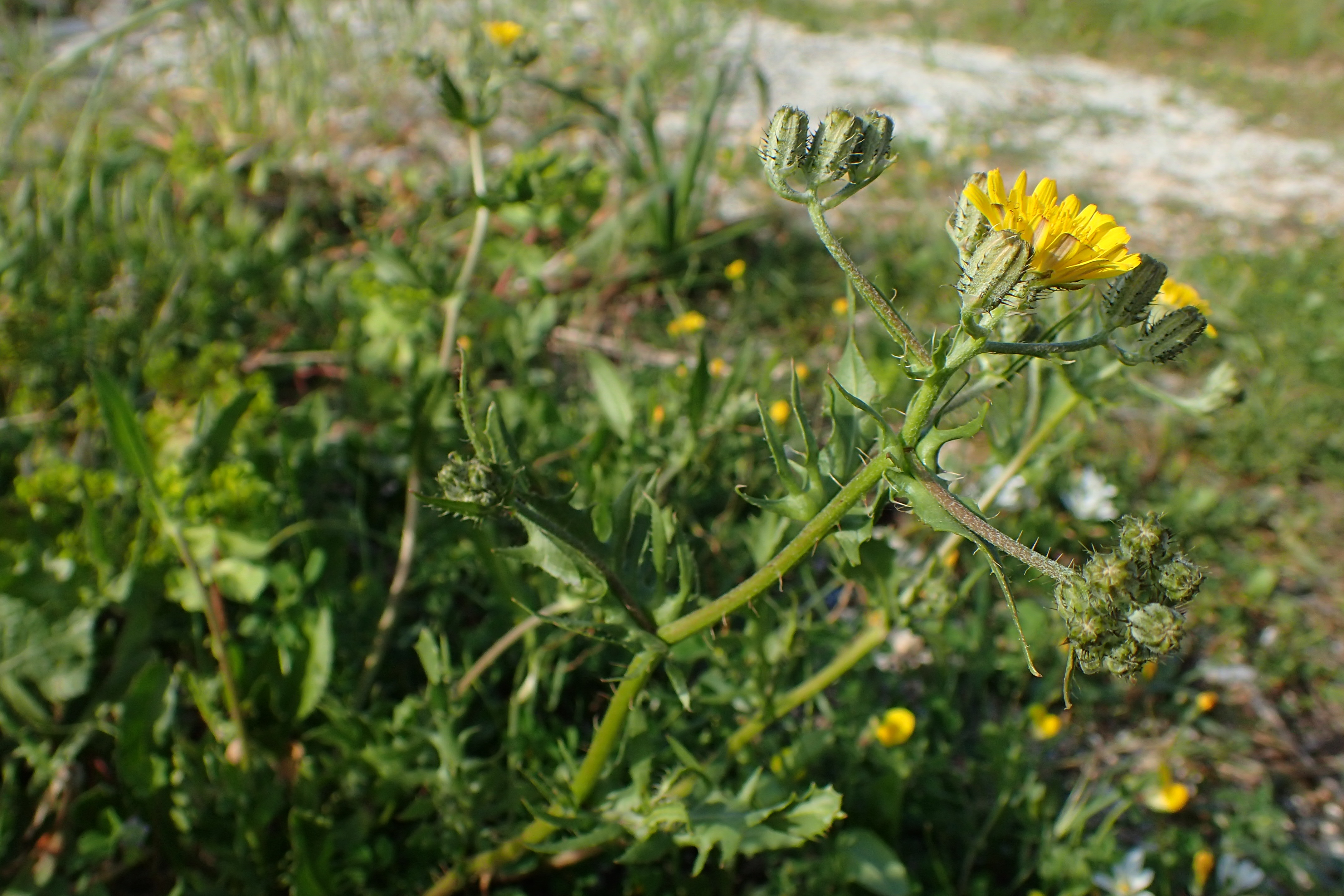 Crepis aspera in Tara, Cyprus